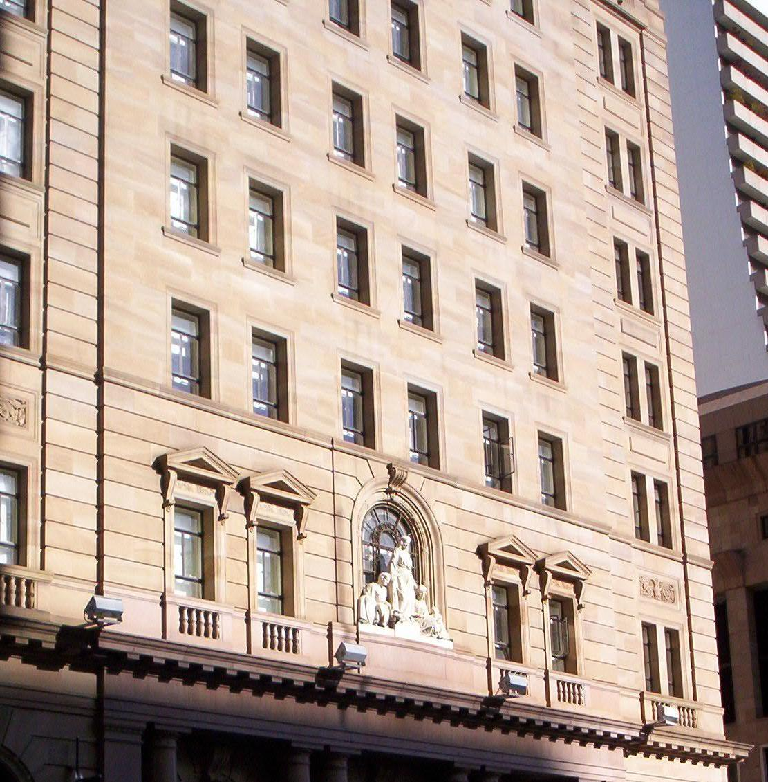 General MacArthur's headquarters during World War II Brisbane, Queensland, Australia ( this photograph was taken by Figaro )